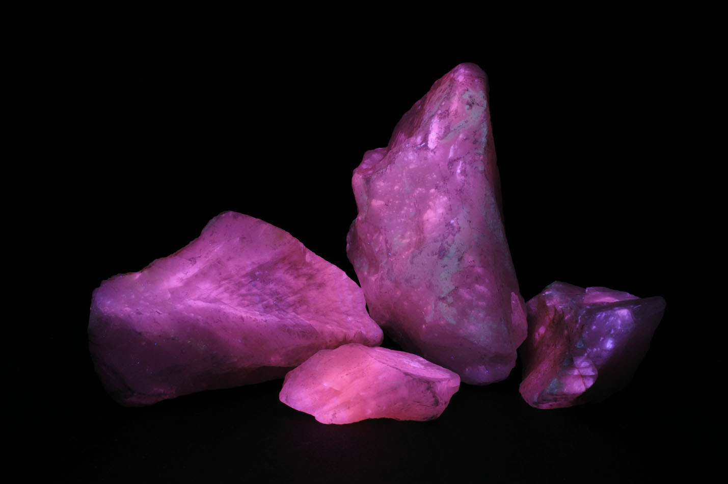 Photograph showing a selection of calcite specimens held by the Herbert Art Gallery & Museum, Coventry. This photograph shows how the specimens fluoresce pink under long wave ultraviolet light. Images showing the same specimens under visible light and long wave UV are also available on the Commons.